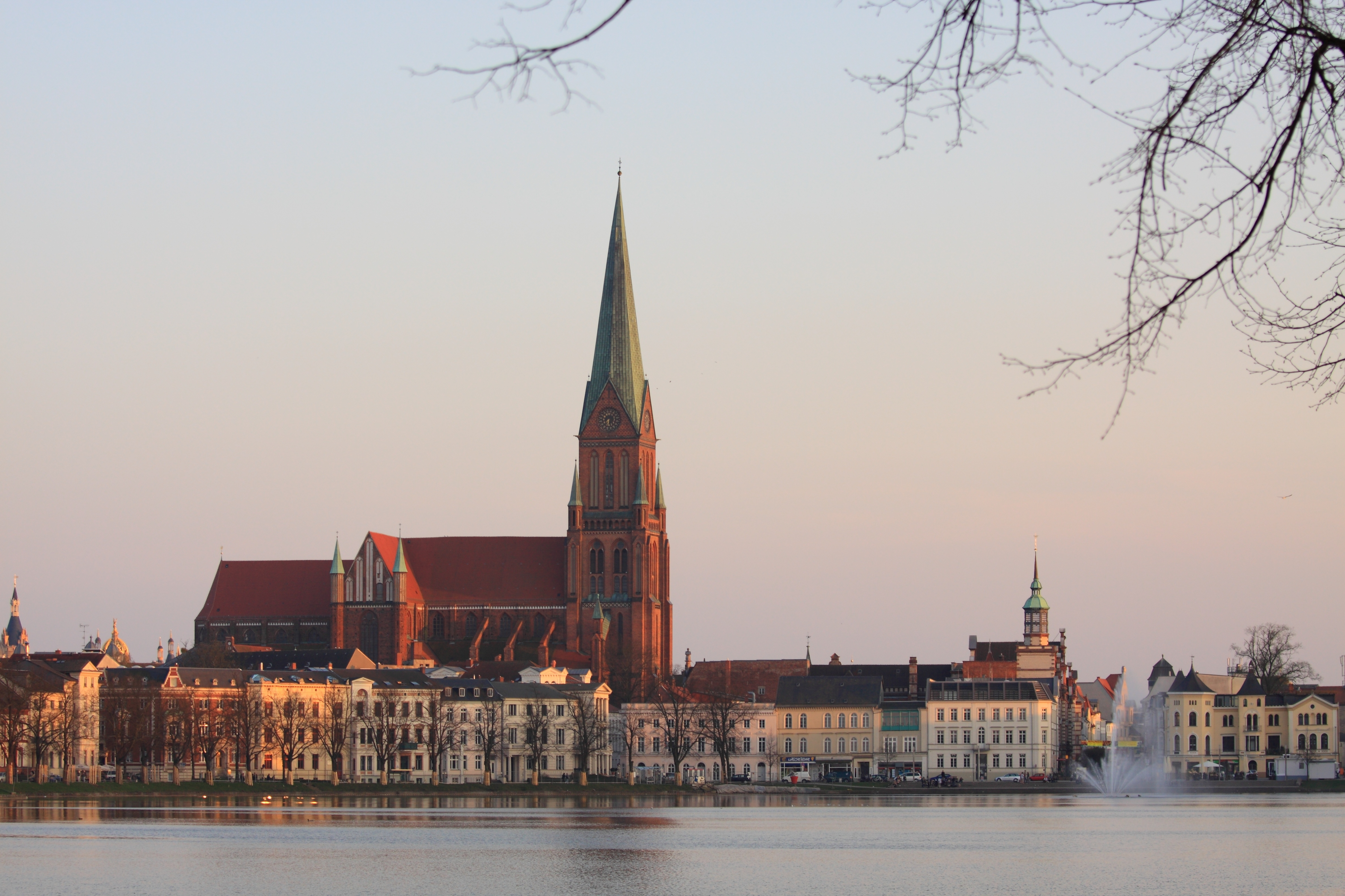 Schwerin, Germany, view over the Pfaffenteich